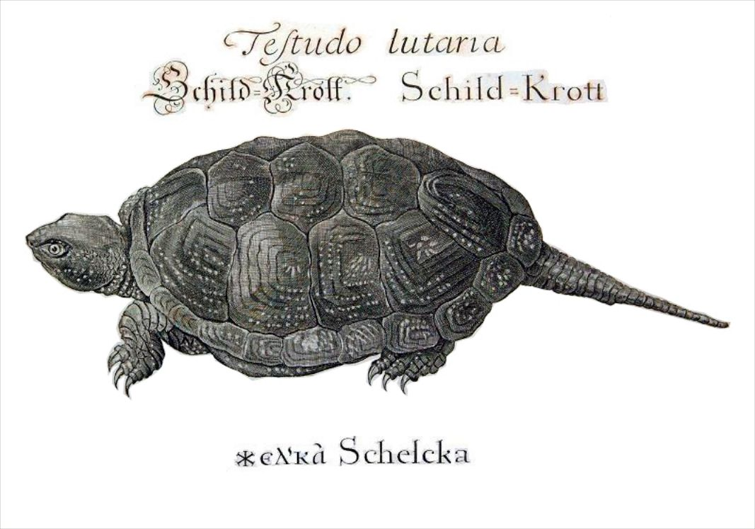 Drawing of a European pond turtle (Emys orbicularis, named Testudo lutaria in the past) near lower Danube. Published in the 1726 work Danubius Pannonico-Mysicus by the Italian naturalist and soldier Luigi Ferdinando Marsigli (1658 – 1730).